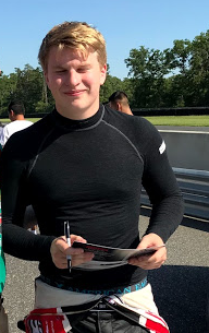 NASCAR driver Tyler Dippel at New Jersey Motorsports Park in 2018.